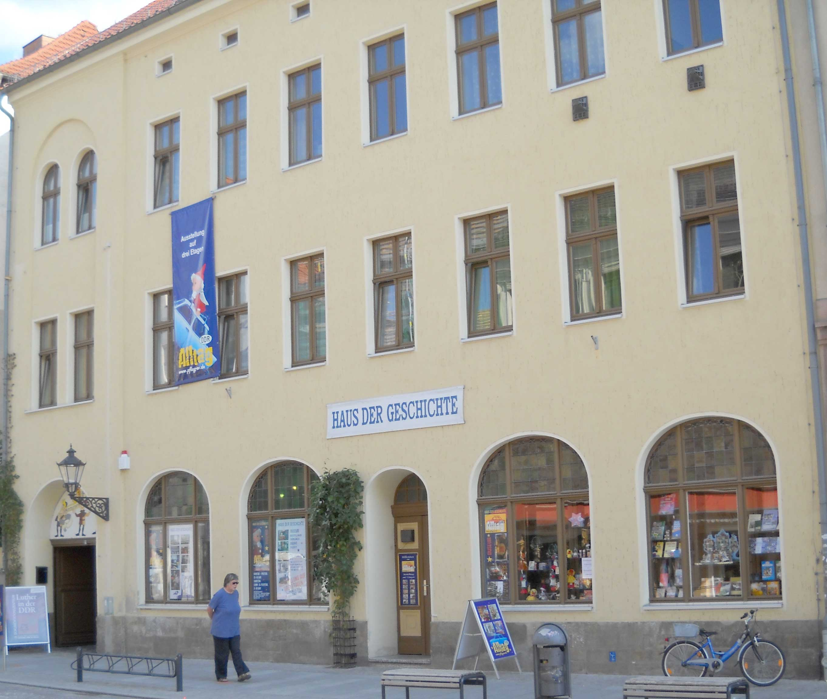 House of History in Wittenberg